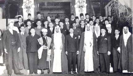 Officials attending the preparatory meeting to draft the Alexandria Protocol, which led to the creation of the Arab League in 1945 – Photograph taken in Alexandria in September 1944 Front row right to left: Sheikh Fozan Al-Sabeq, Saudi ambassador to Egypt – Unidentified – Hussein Sirri Pasha, several times Prime Minister of Egypt – Possibly Prince Saud or Prince Khalid Bin Abdelaziz – Mohamed Mahmoud Pasha, Prime Minister of Egypt – Minister of Foreign Affairs of Saudi Arabia and future King Faysal Bin Abdelaziz – Seif Ul Islam Al-Hussein, son of Imam Yahya of Yemen – Prince Mohamed Abdel-Monem, future member of the Regency Council in Egypt following the 1952 coup-d’état – Sir Miles Lampson (Lord Killearn), British Ambassador to Egypt. (Why would a British ambassador attend a supposedly Arab meeting? Go figure!). 2nd row right to left: Sheikh Fawzi El-Bakri? – Fouad Hamza, Lebanese Druze personality and Advisor to King Abdelaziz Bin Saud – Egyptian writer and first President of the University of Cairo, Lotfy Essayed Pasha standing between Prince Mohamed Abdel-Monem and Sir Miles Lampson.. 3rd row right to left: Unidentified – Mohamed Ali Eltaher – Marshal Omar Fathi Pasha, Senior Aide-de-Camp to King Farouq – Unidentified – Unidentified – Palestinian nationalist and future Jordanian Minister Plenipotentiary in Egypt Awni Abdelhadi – Prime Minister of Iraq Nouri Pasha El-Said. Other individuals appear in this extraordinary photograph, but they are not identified: Egyptian writer Dr. Mansour Fahmy Pasha – Refaat Saba Pasha – Egyptian academic Dr. Fouad Abaza – Egyptian Minister of Education Hilmi Issa Pasha.